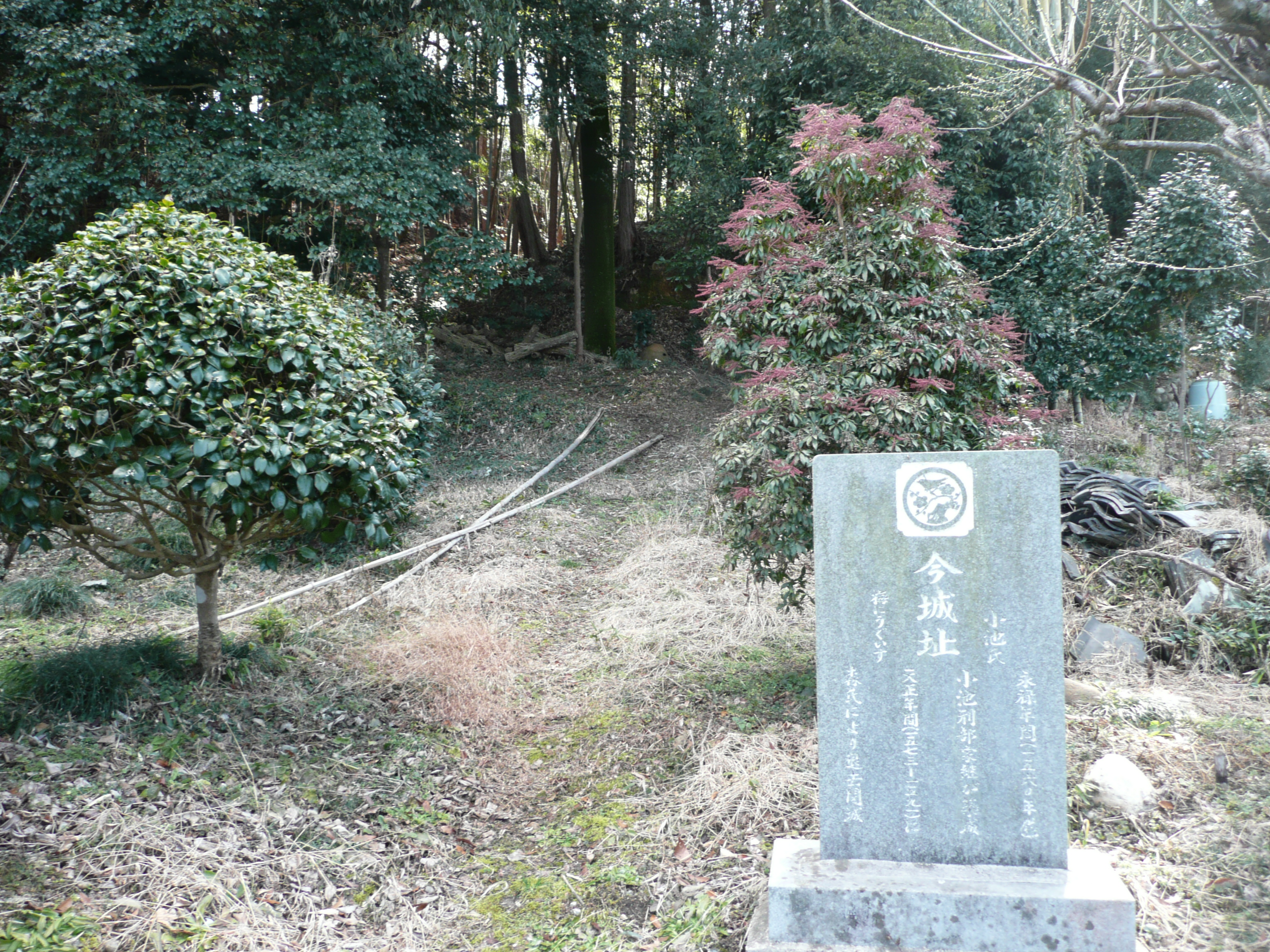 今城の登城口前にある石碑